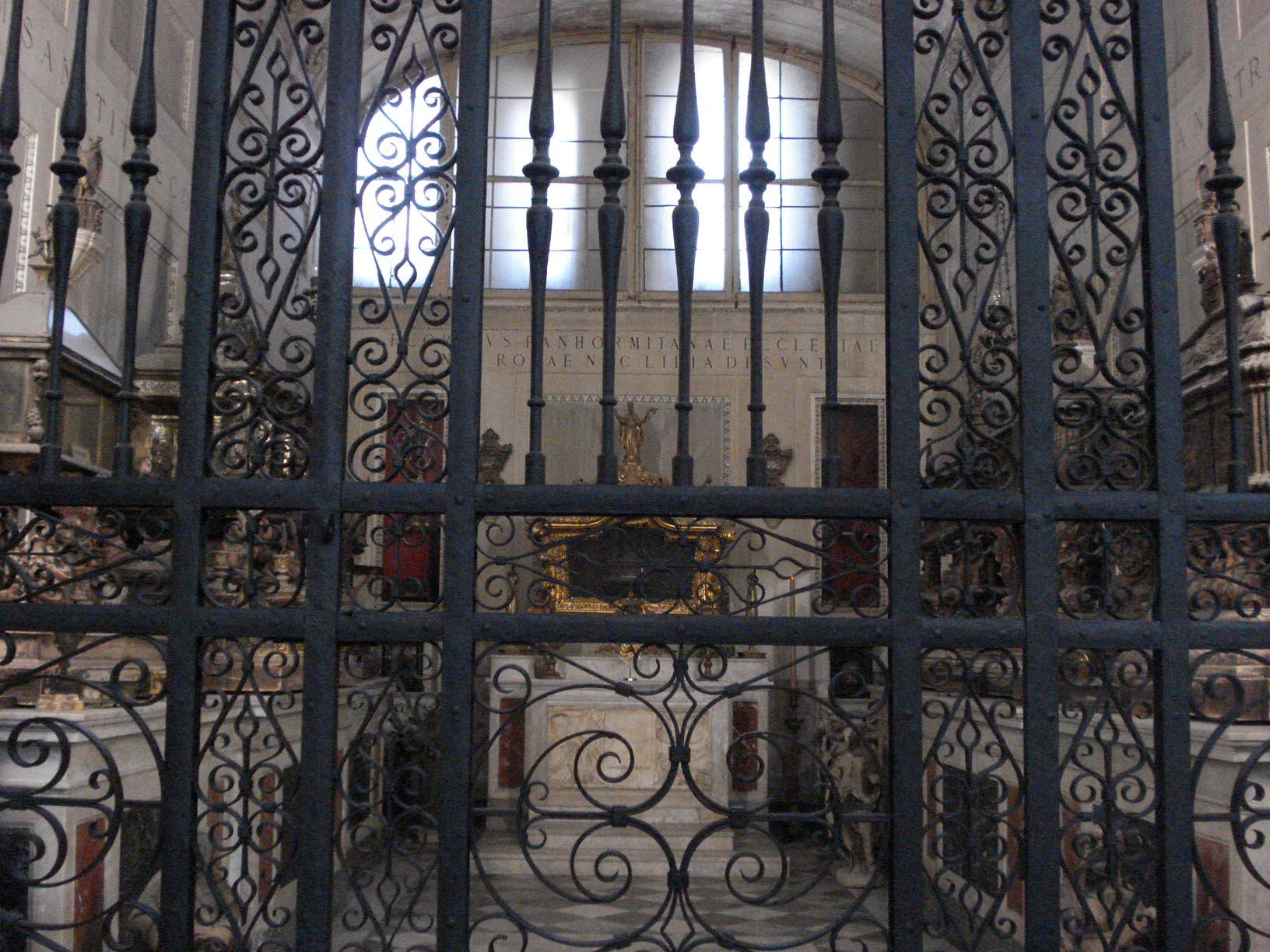 Chapel of Relics (Palermo Cathedral)